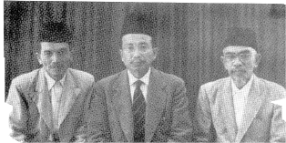 The Three Pioneers of the Ahmadiyya movement in Islam in Indonesia. From left to right : Ahmad Nurdin, Abubakar Ayub, Zaini Dahlan